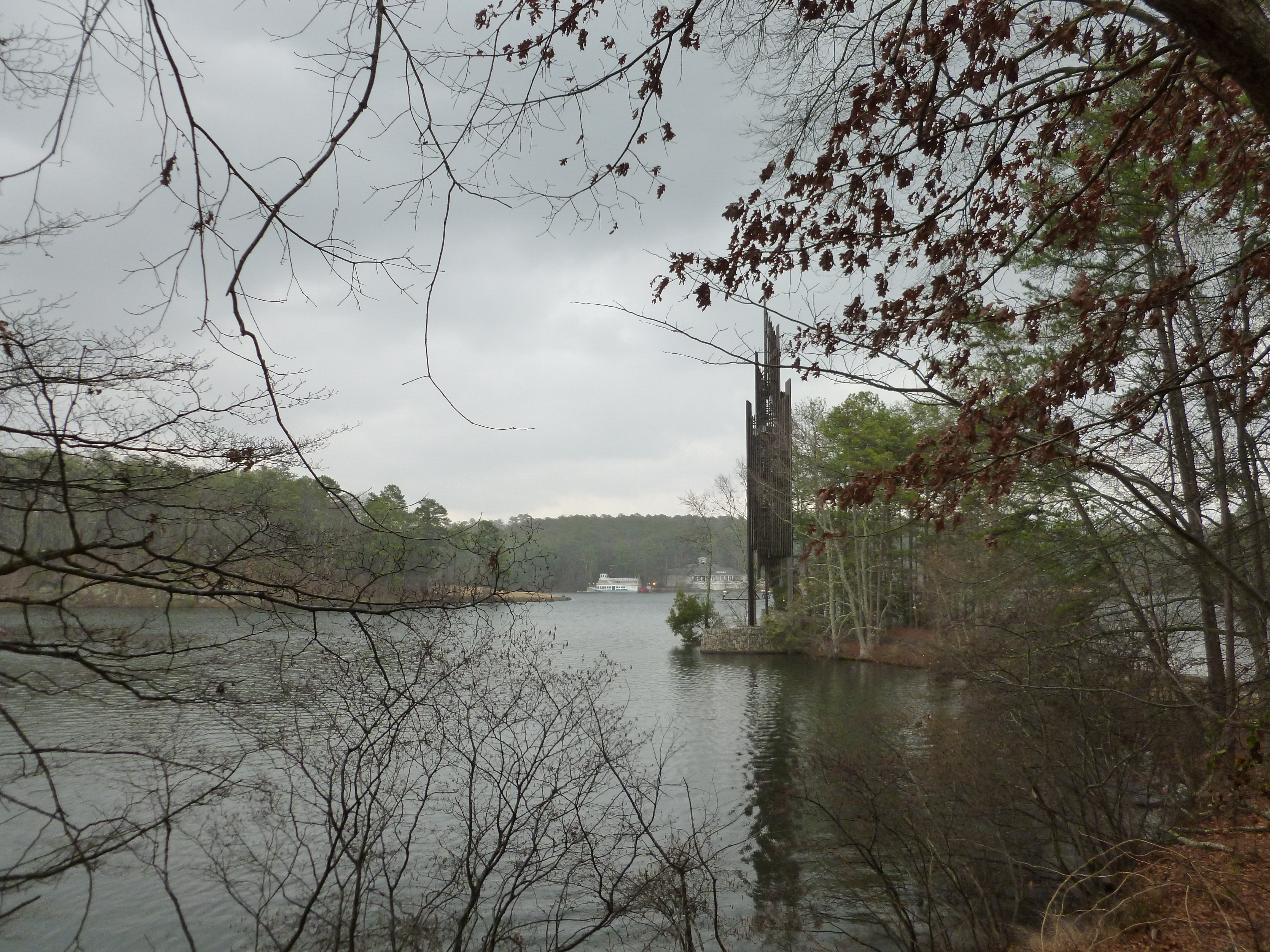 The carillon at Stone Mountain, Georgia. Coca Cola sponsored its construction for the 1964 World's Fair.